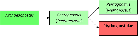 Schematic showing the relationship between the different subgenera of Peronopsis (light green), other Peronopsid genera (darker green) and other families (other colors). Based on E. B. Naimark (2012). Hundred species of the genus Peronopsis Hawle et Corda, 1847. Paleontological Journal 46(9):945-1057